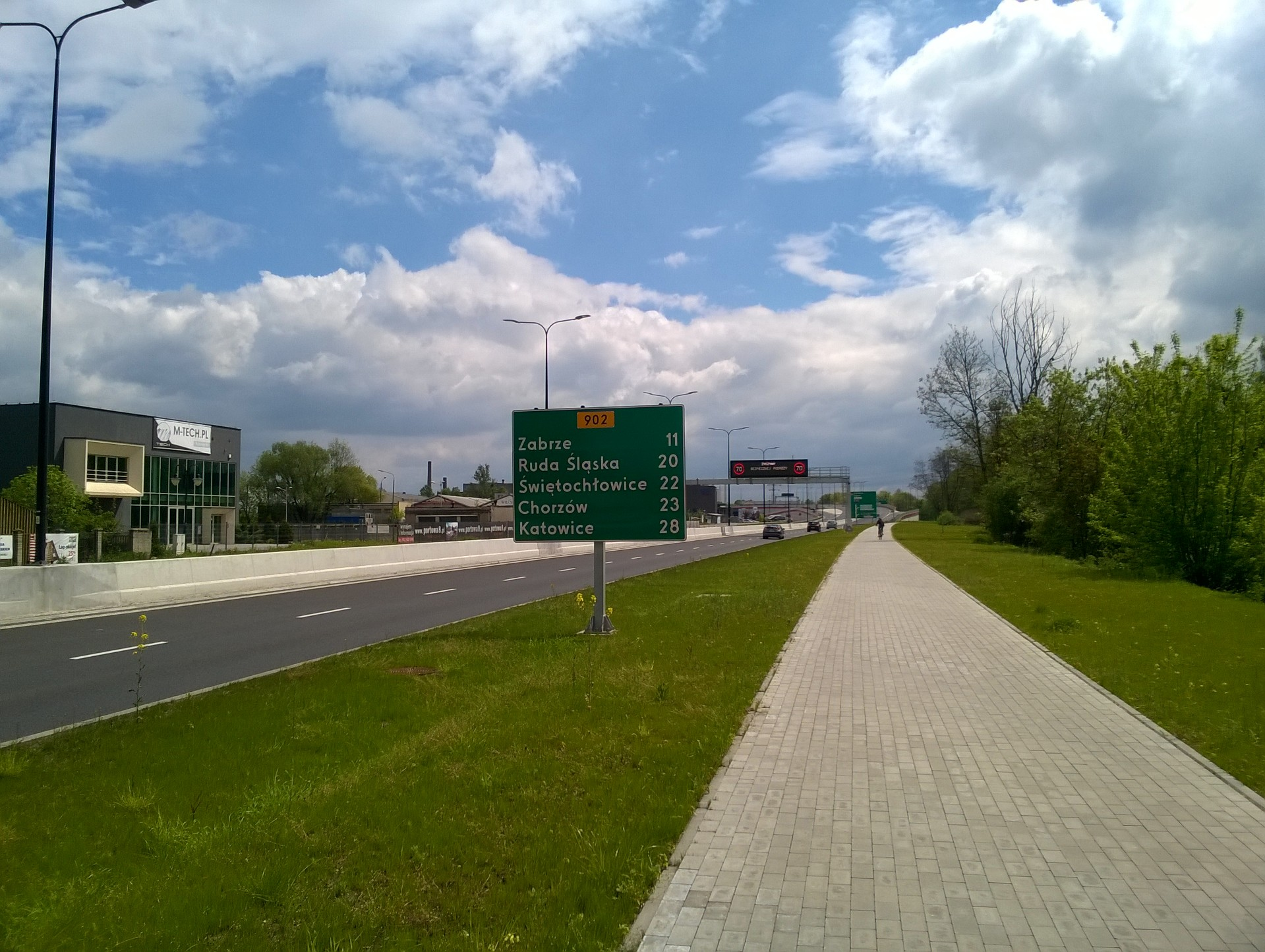 Begin of Drogowa Trasa Średnicowa in Gliwice